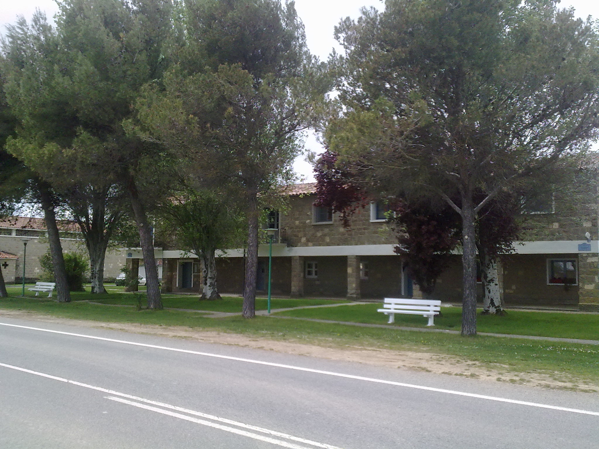 Council house of Gabarderal.